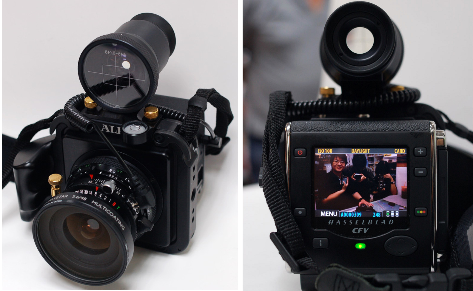 An Alpa camera with a Hasselblad digital back